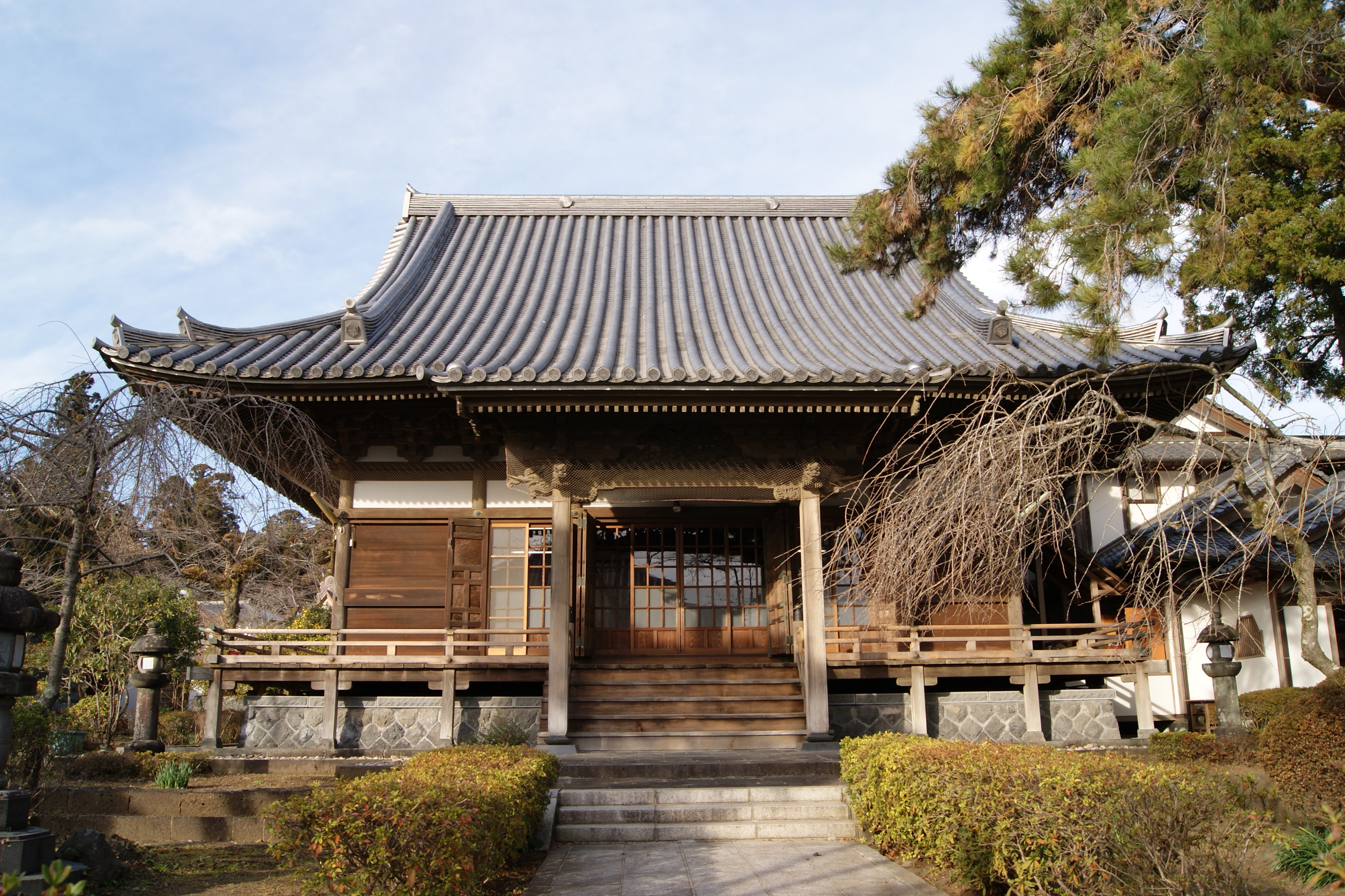 Ishinobō of Taiseki-ji.